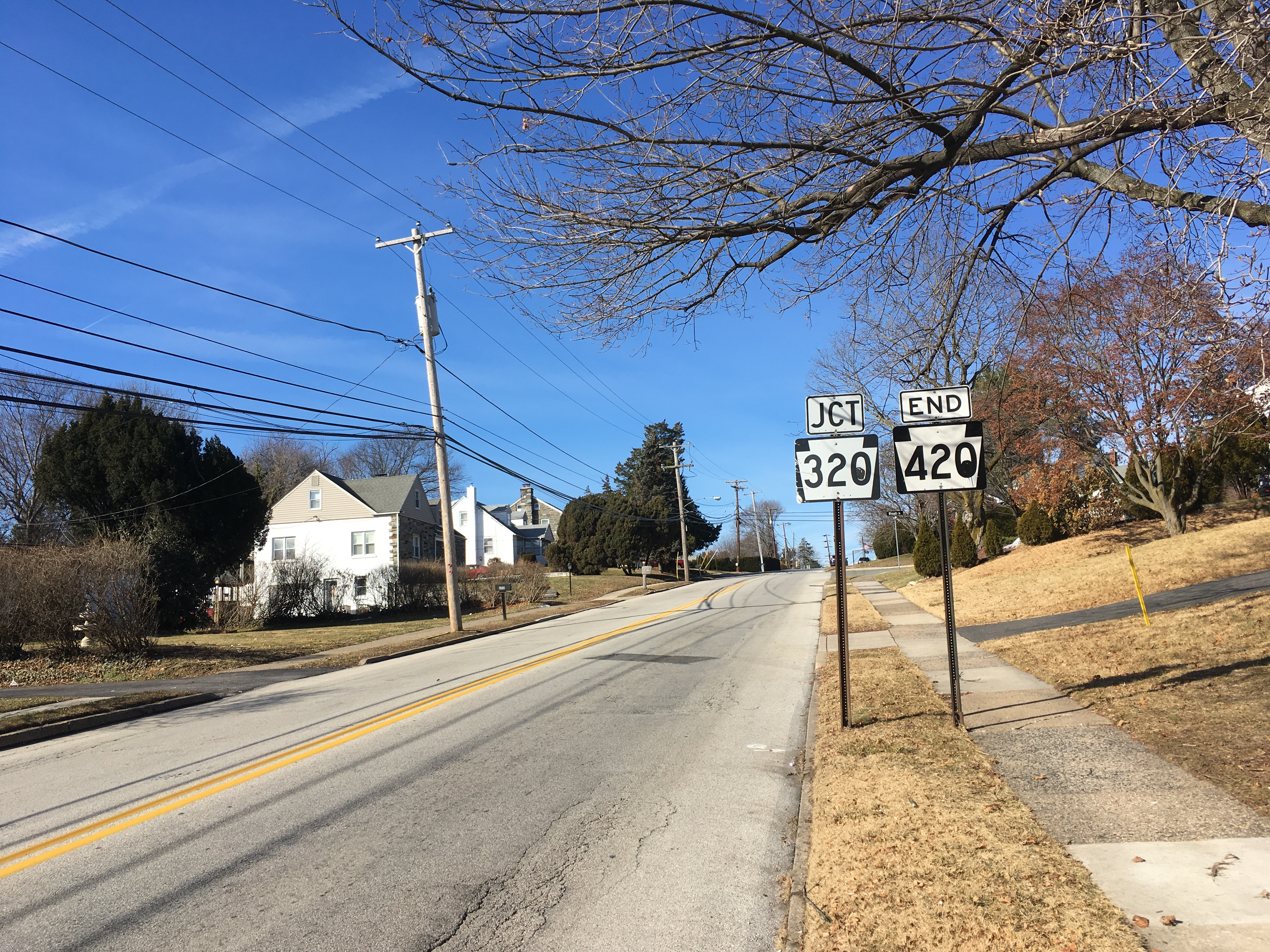 Northbound Pennsylvania Route 420 (Woodland Avenue) approaching its northern terminus at Pennsylvania Route 320 (Sproul Road) in Springfield, Pennsylvania